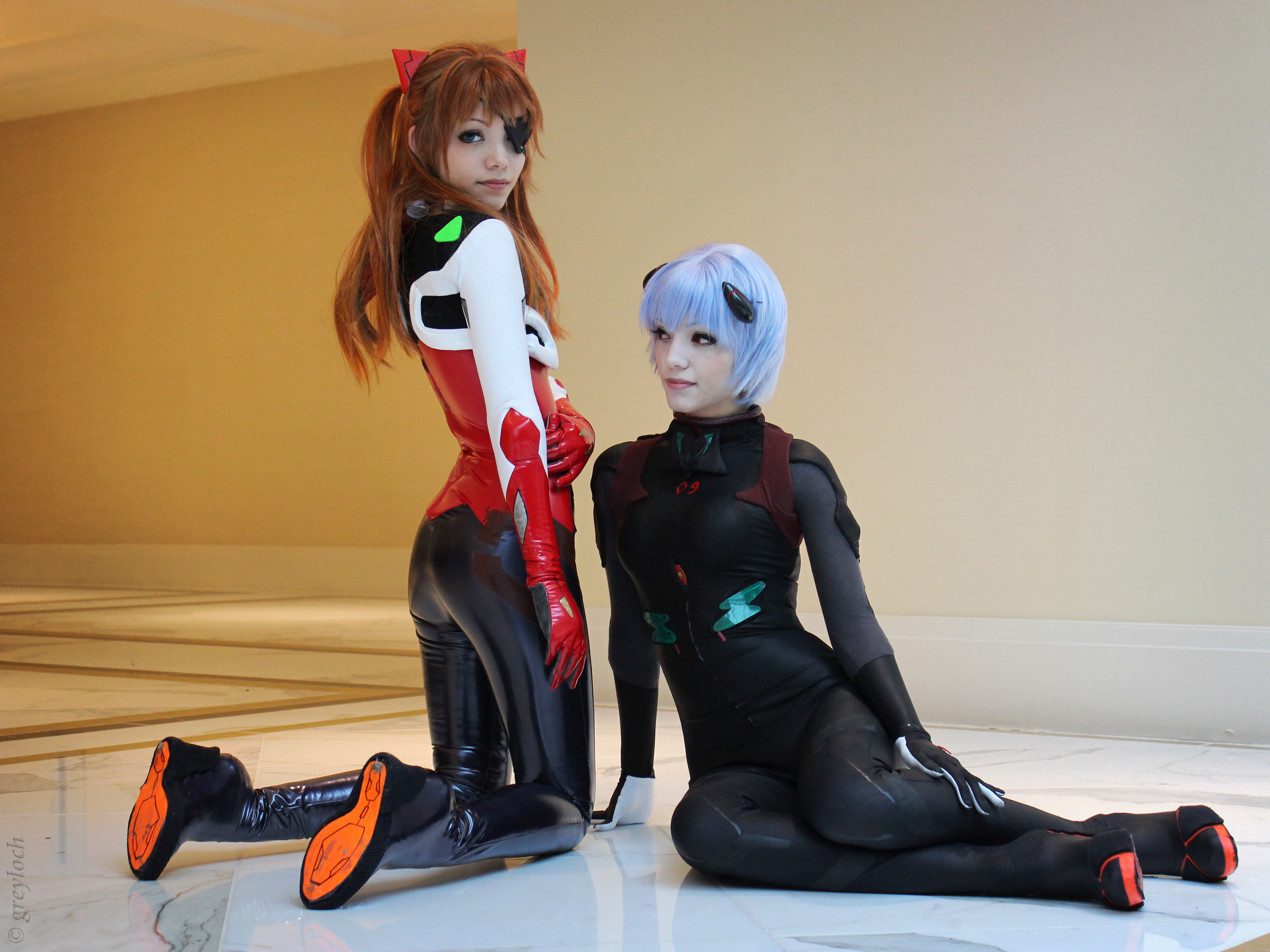 Cosplayers of Asuka Langley Soryu and Rei Ayanami, Neon Genesis Evangelion. Katsucon 2013.